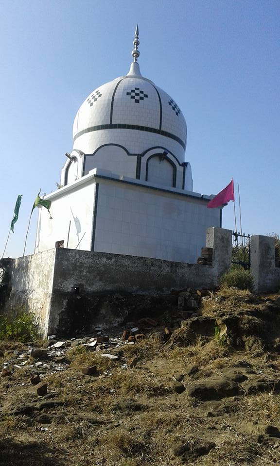 Tomp Baba Peer Jhala Badshah